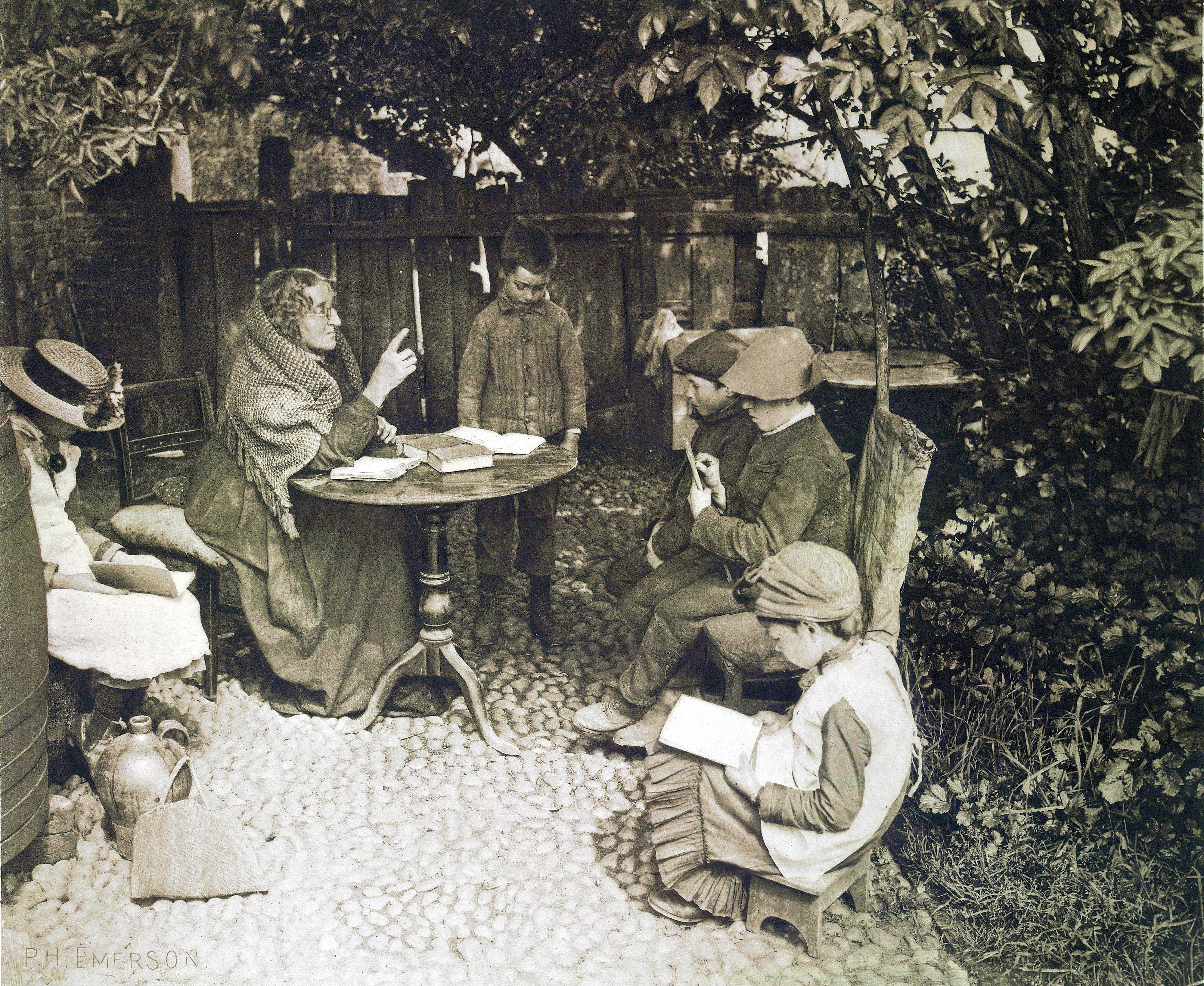 In the 1887 book ‘Pictures From Life In Field And Fen,’ photographer Peter Henry Emerson observes and records scenes of country life in East Anglia, England. 'A Dame's School’ features a school conducted in a fisherman’s cobbled yard.